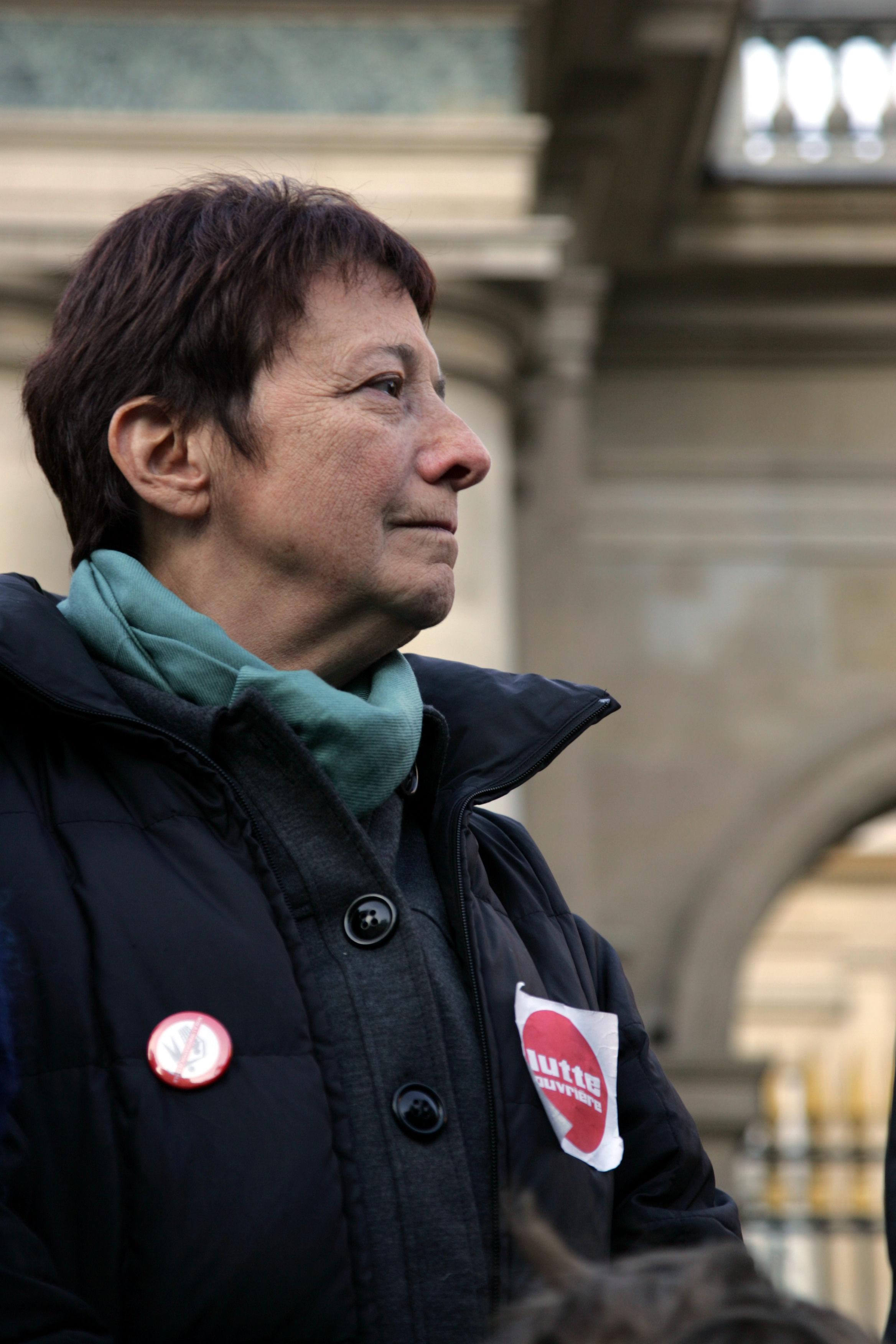 Arlette Laguiller at the demonstration against the Hortefeux law. Paris, 20th of October 2007.